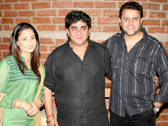 Lataa Saberwal, Rajan Shahi, Sanjeev Seth